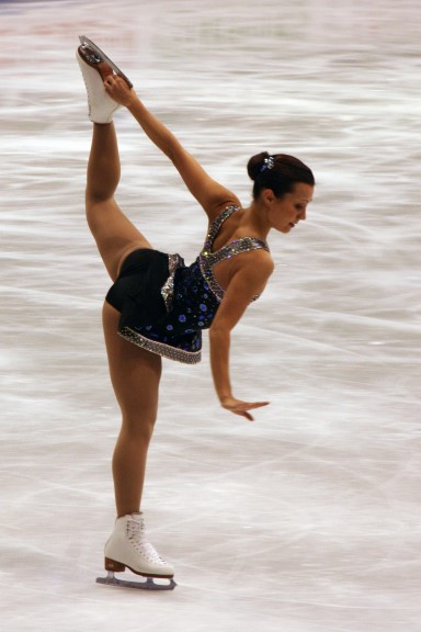 Susanna Pöykiö at the the 2009 World Championships.